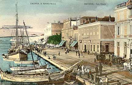 Smyrna. Greek postcard